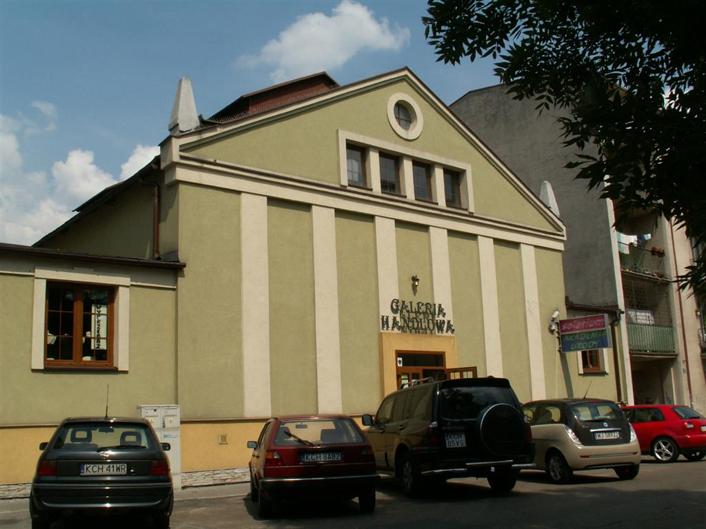 Synagogue in Chrzanów on 3 Maja Street